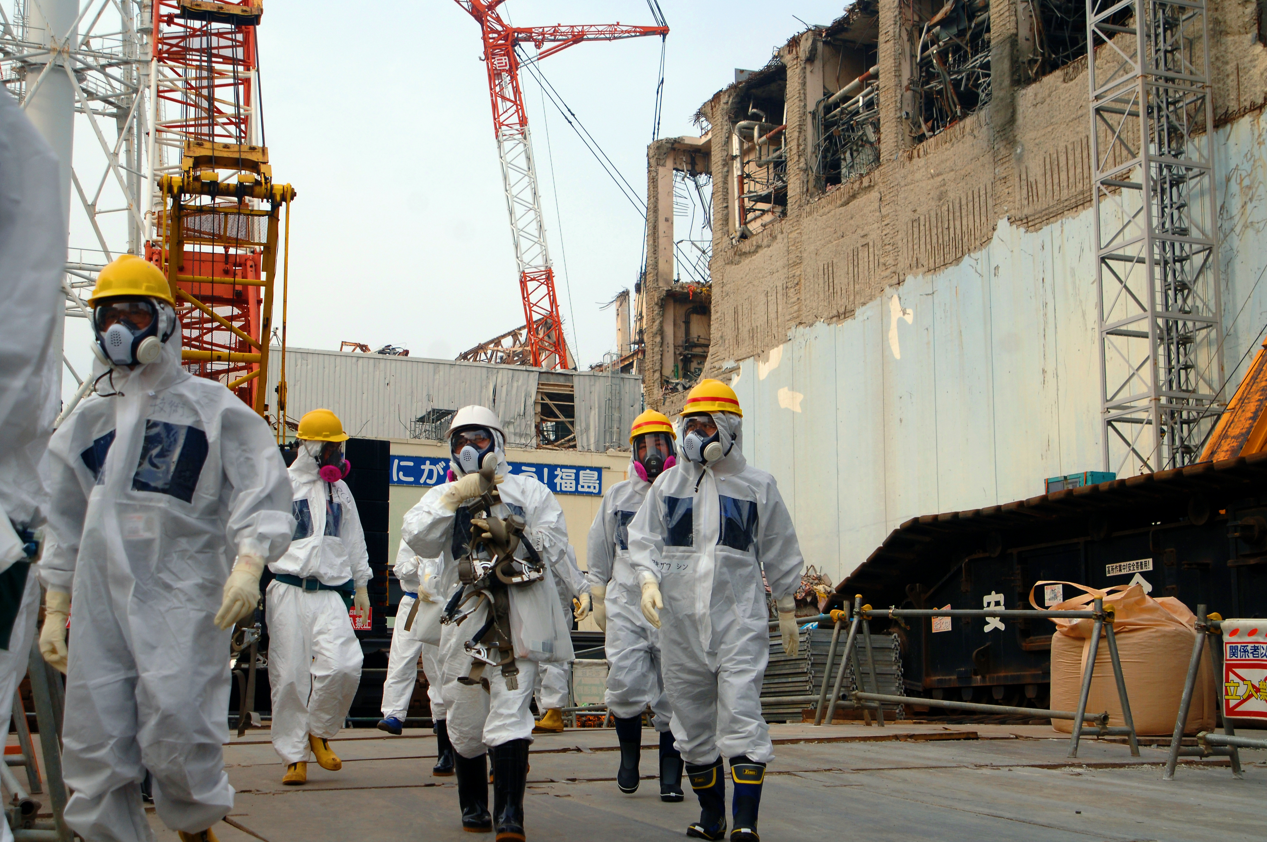 IAEA experts depart Unit 4 of TEPCO's Fukushima Daiichi Nuclear Power Station on 17 April 2013 as part of a mission to review Japan's plans to decommission the facility. Photo Credit: Greg Webb / IAEA